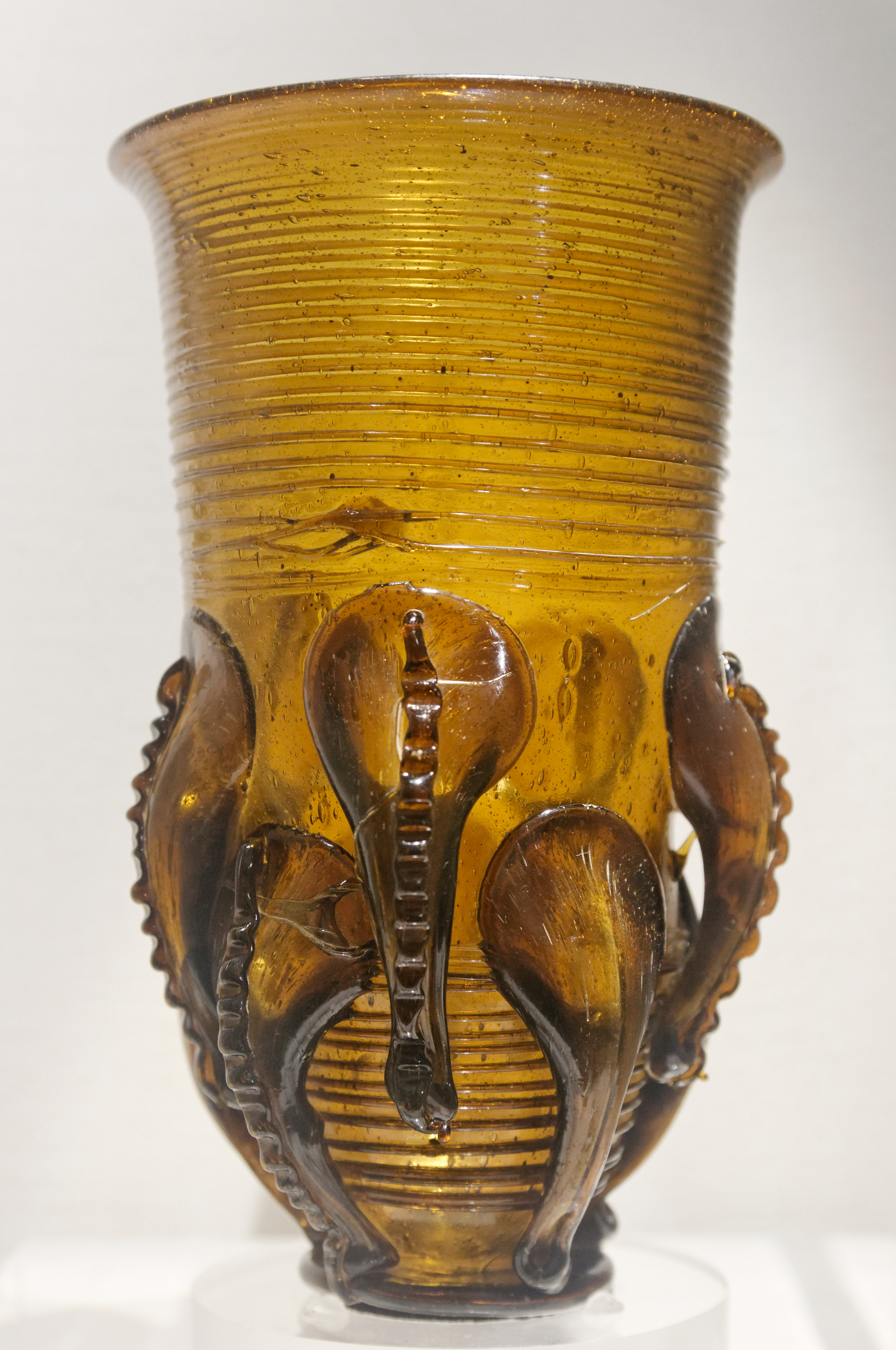 Claw beaker decorated with applied trails (Evison type 3c).